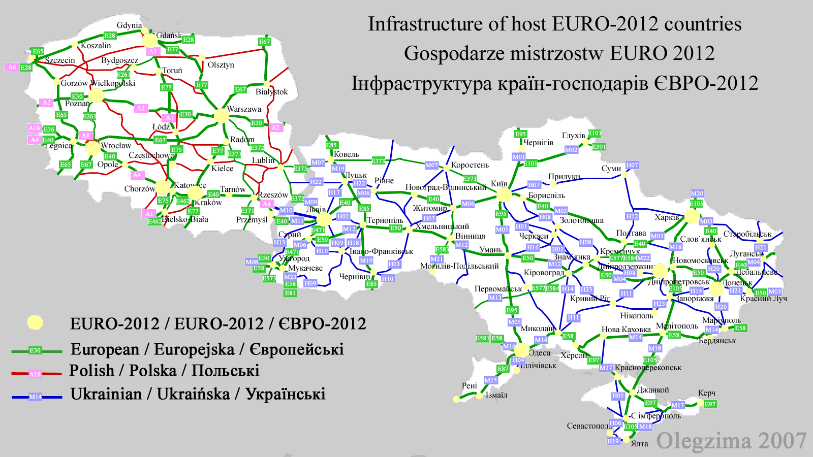 map in English, Polish, Ukrainian